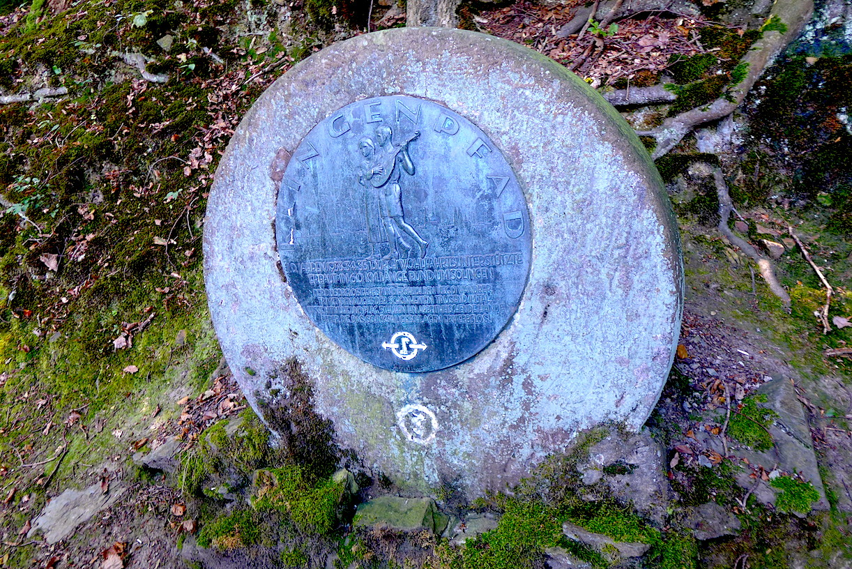 "Blade track" - the tourist marked route around the German city of Solingen (Northern Rhine-Westphalia). Second stage: Kohlfurth - Unterburg, 8,5 km.